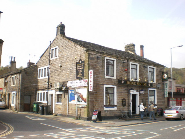 Border Rose Inn